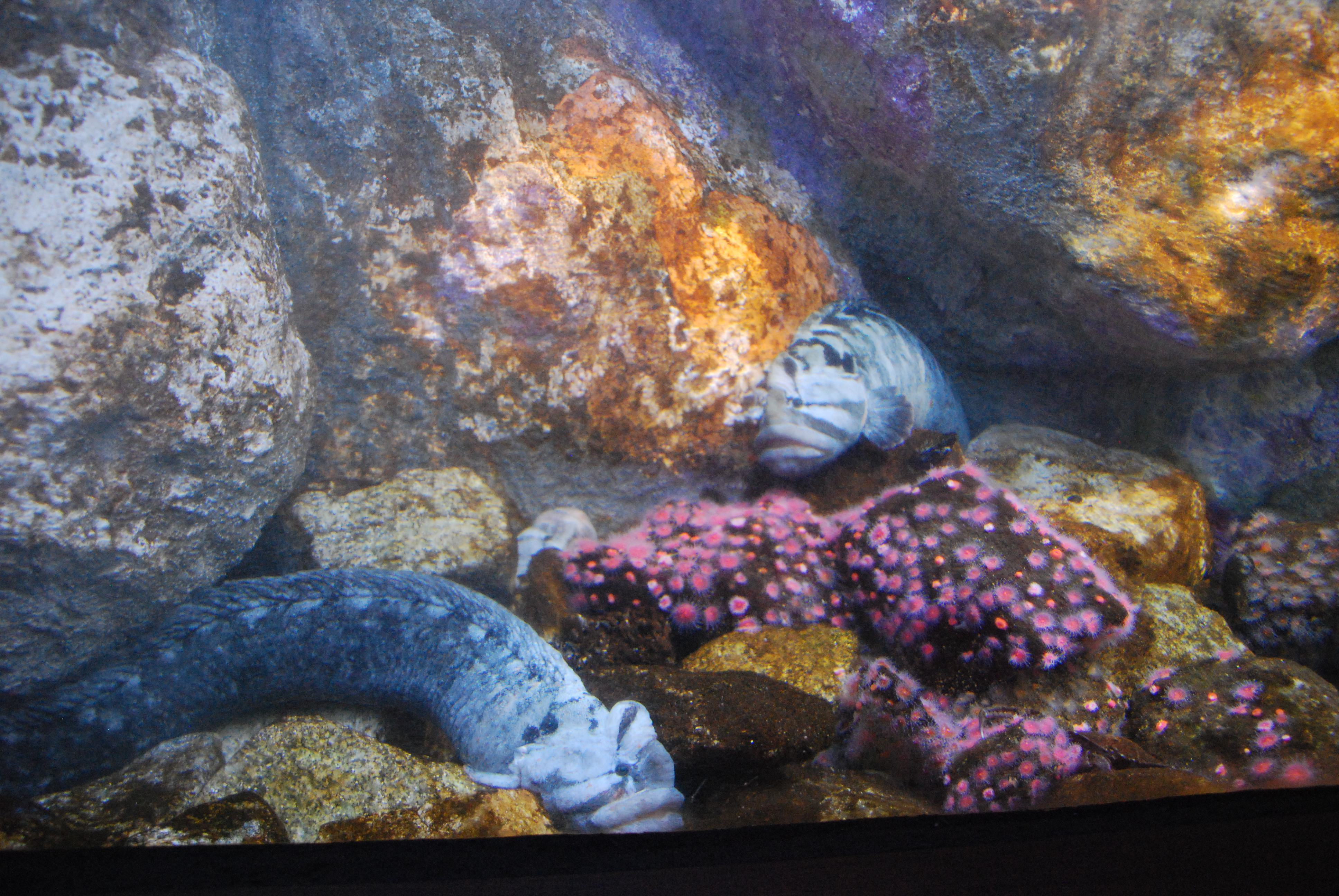 California Academy of Sciences - Steinhart Aquarium